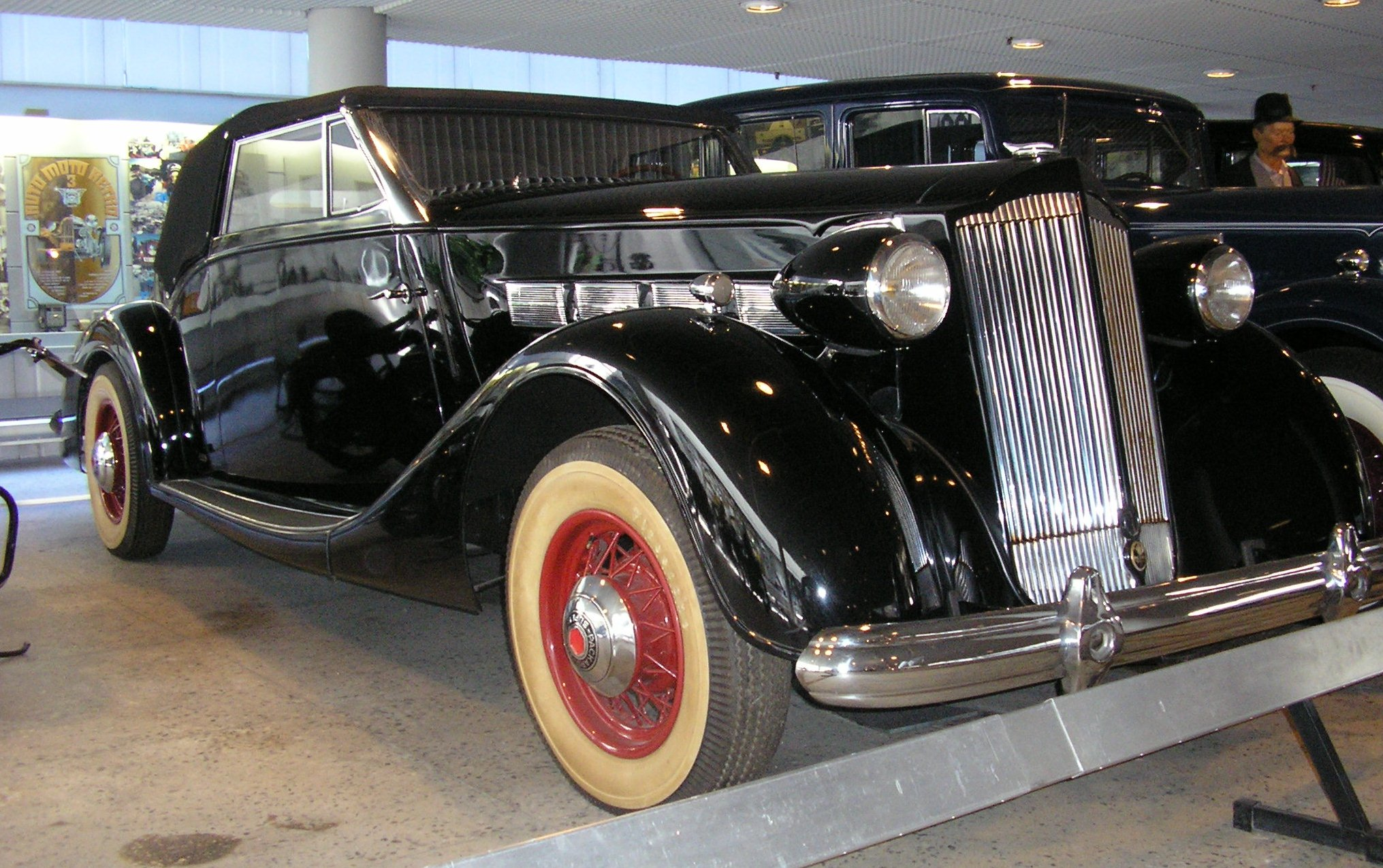 A 1937 Packard Super Eight 1502. Before WW2 it belonged to king Karol II of Romania.